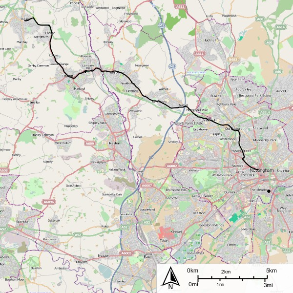 Nottinghamshire and Derbyshire Tramway Legend: *━━━ Primary lines